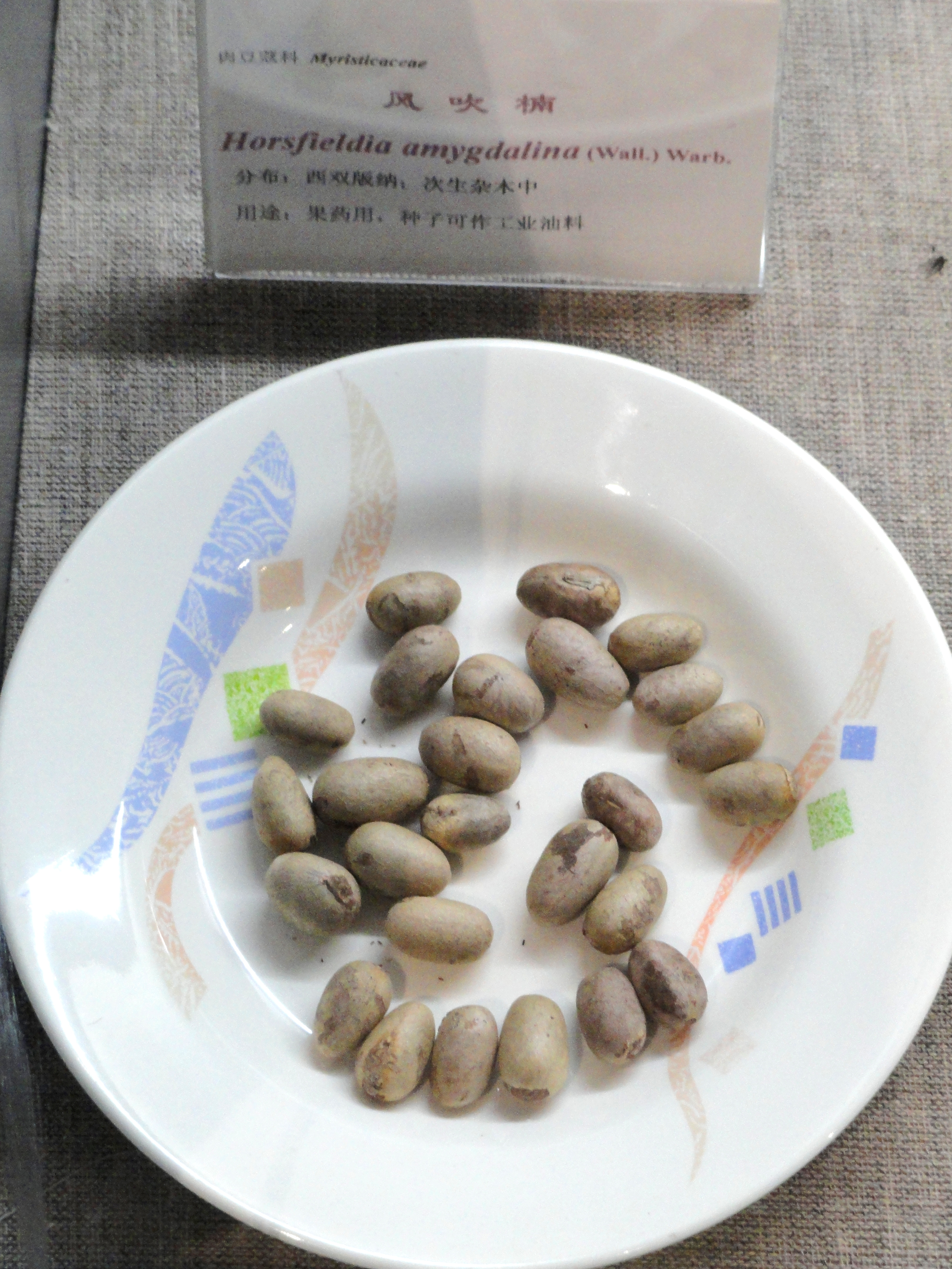 Seeds exhibited in the Kunming Botanical Garden, Kunming, Yunnan, China.